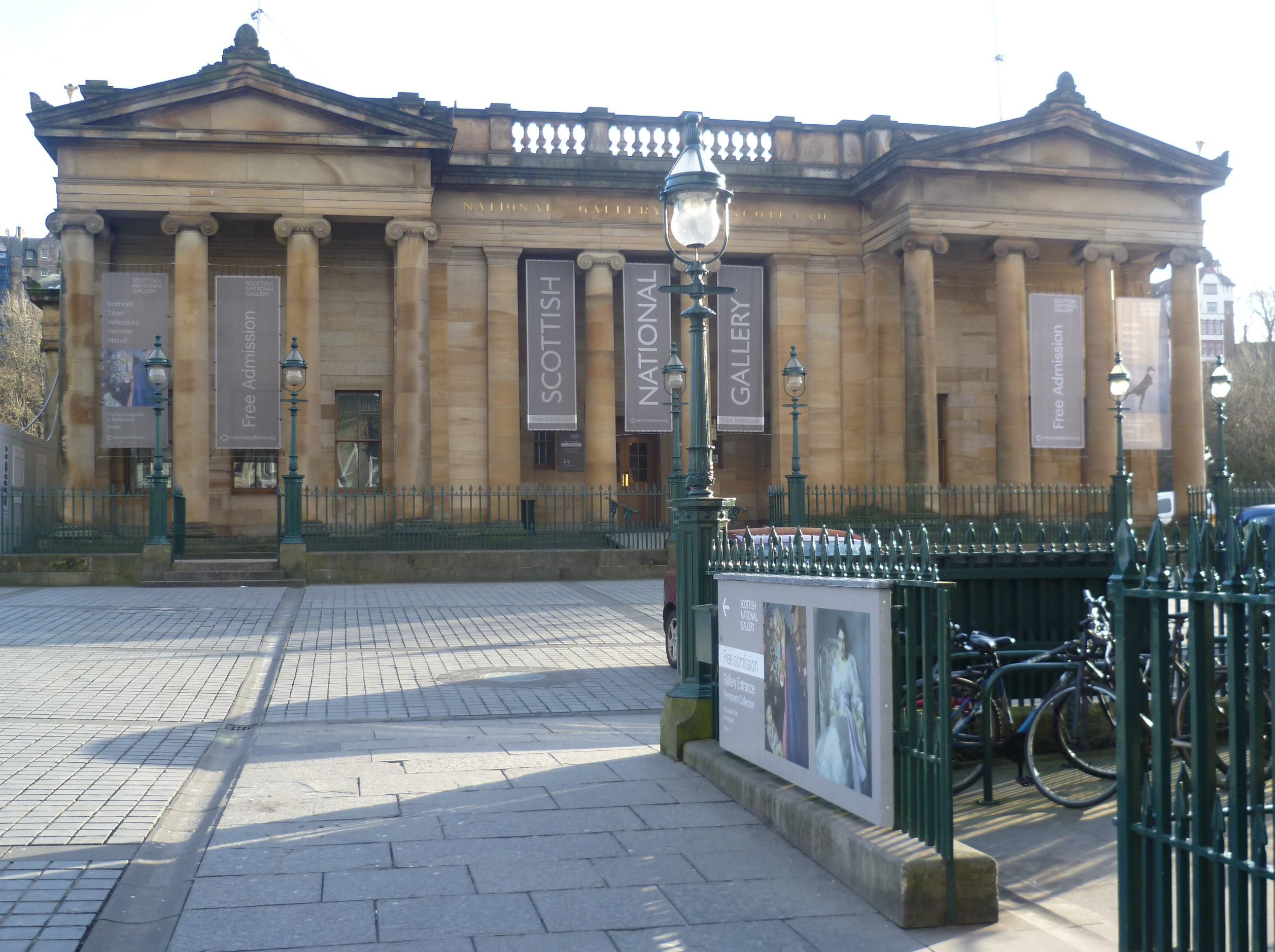 National Gallery of Scotland, Edinburgh